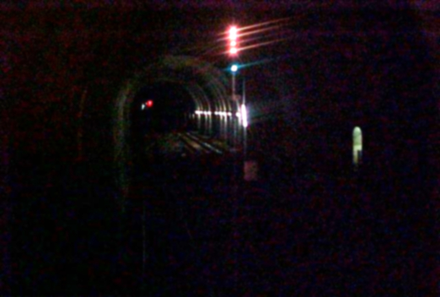 Hex River Tunnel 4, interior passing siding Location: Hex River Valley, De Doorns, Western Cape